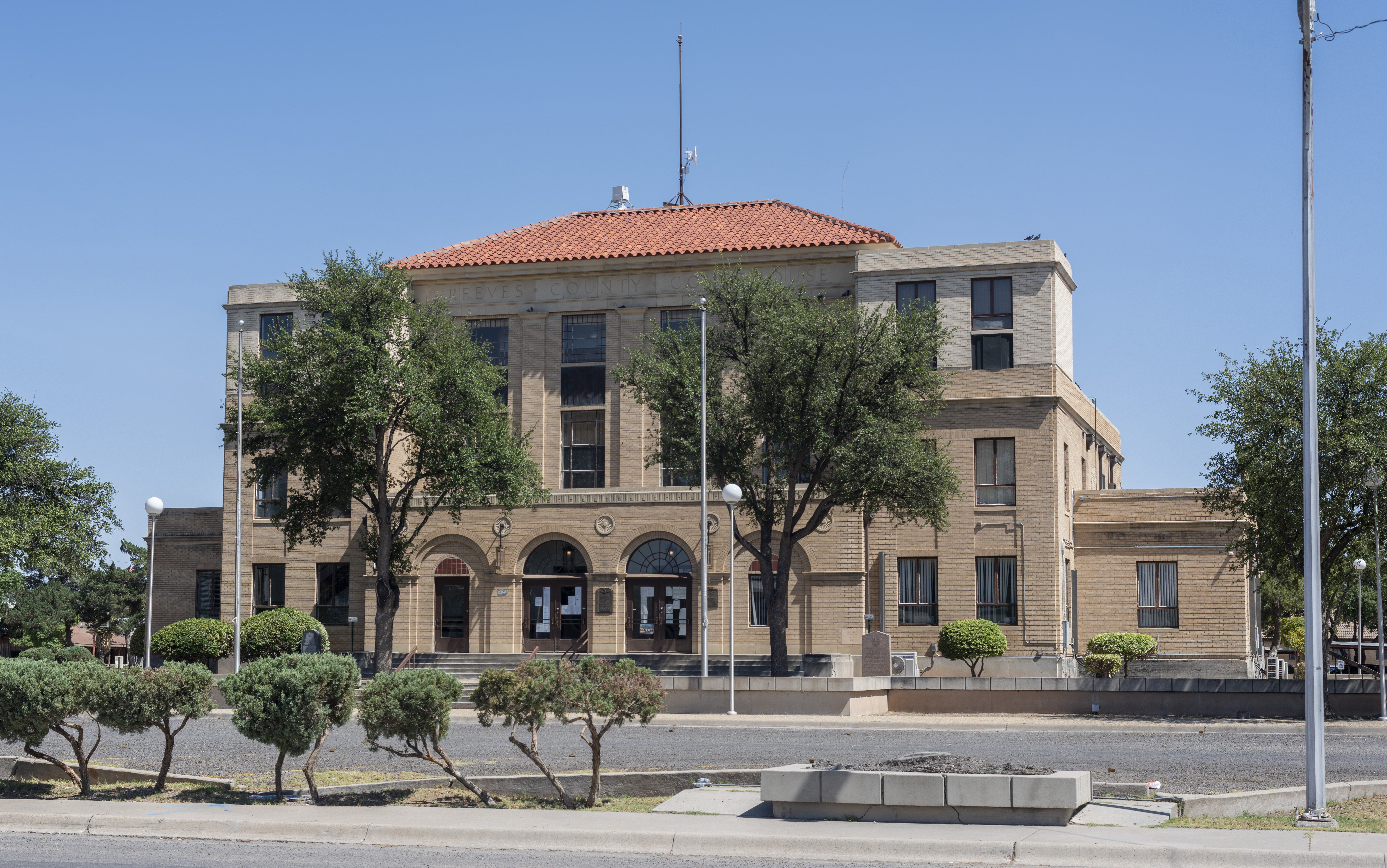 Image of the Reeves County courthouse in Pecos, Texas. Image taken in June 2020.